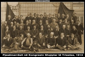 Photo of the participants of the Albanian Congress of Trieste